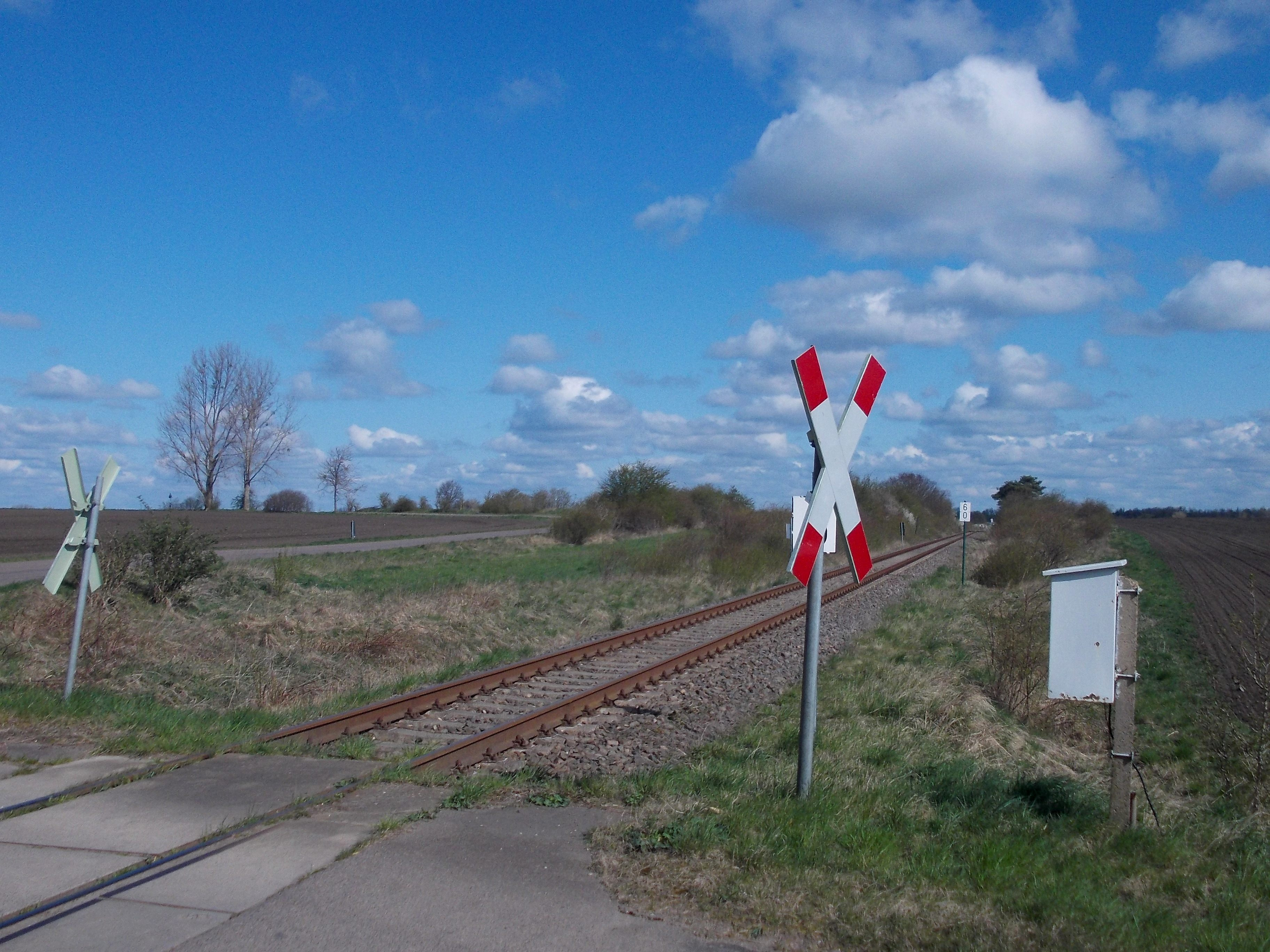 Köthen–Aken railway line east of Micheln (Osternienburger Land, Anhalt-Bitterfeld district, Saxony-Anhalt)